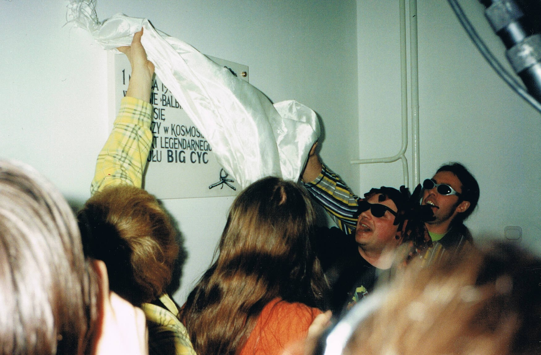 Unveiling of the plate devoted to the first concert of polish rock group Big Cyc (Lodz, 1997)